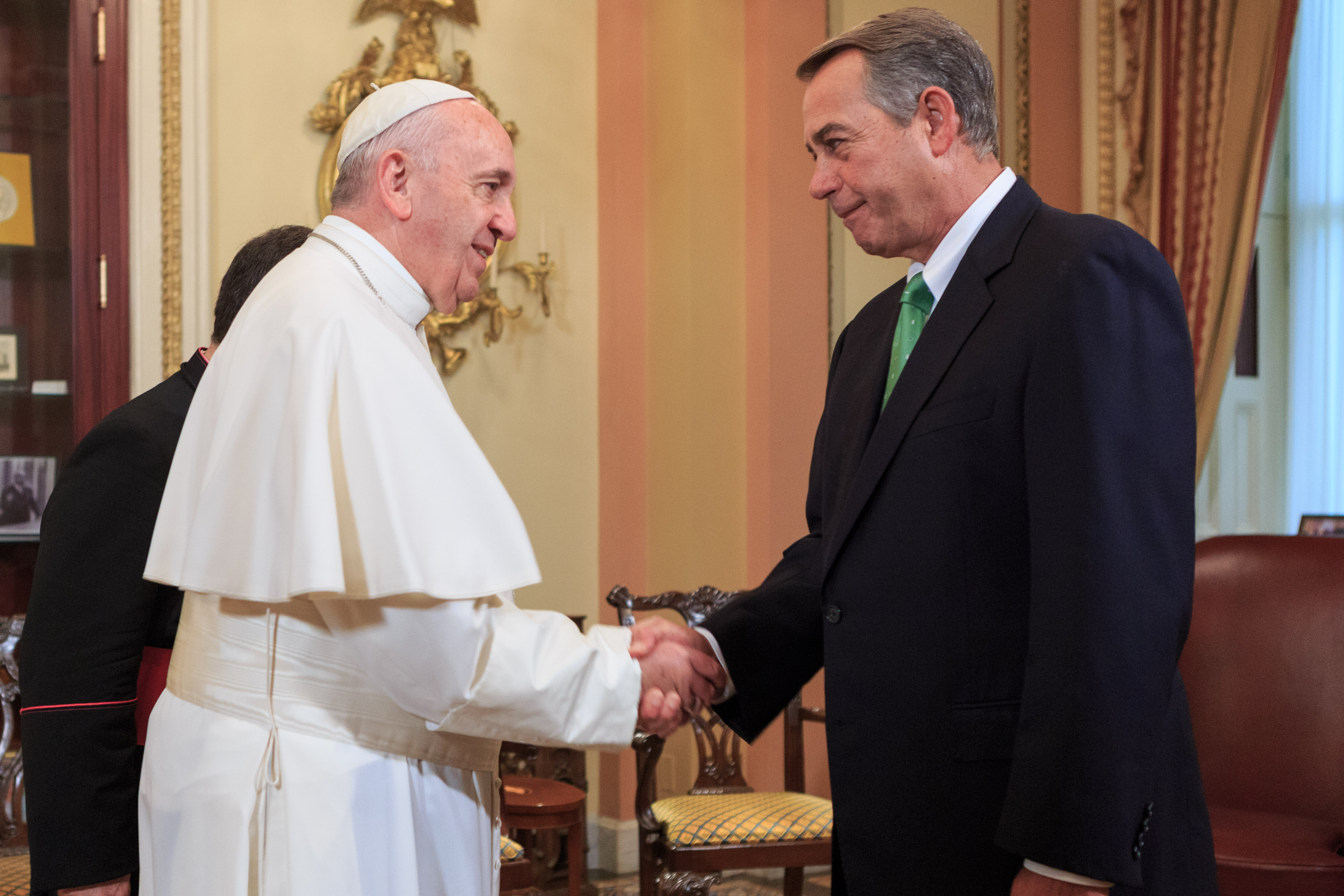 Pope Francis shakes hands with Speaker of the House John Boehner